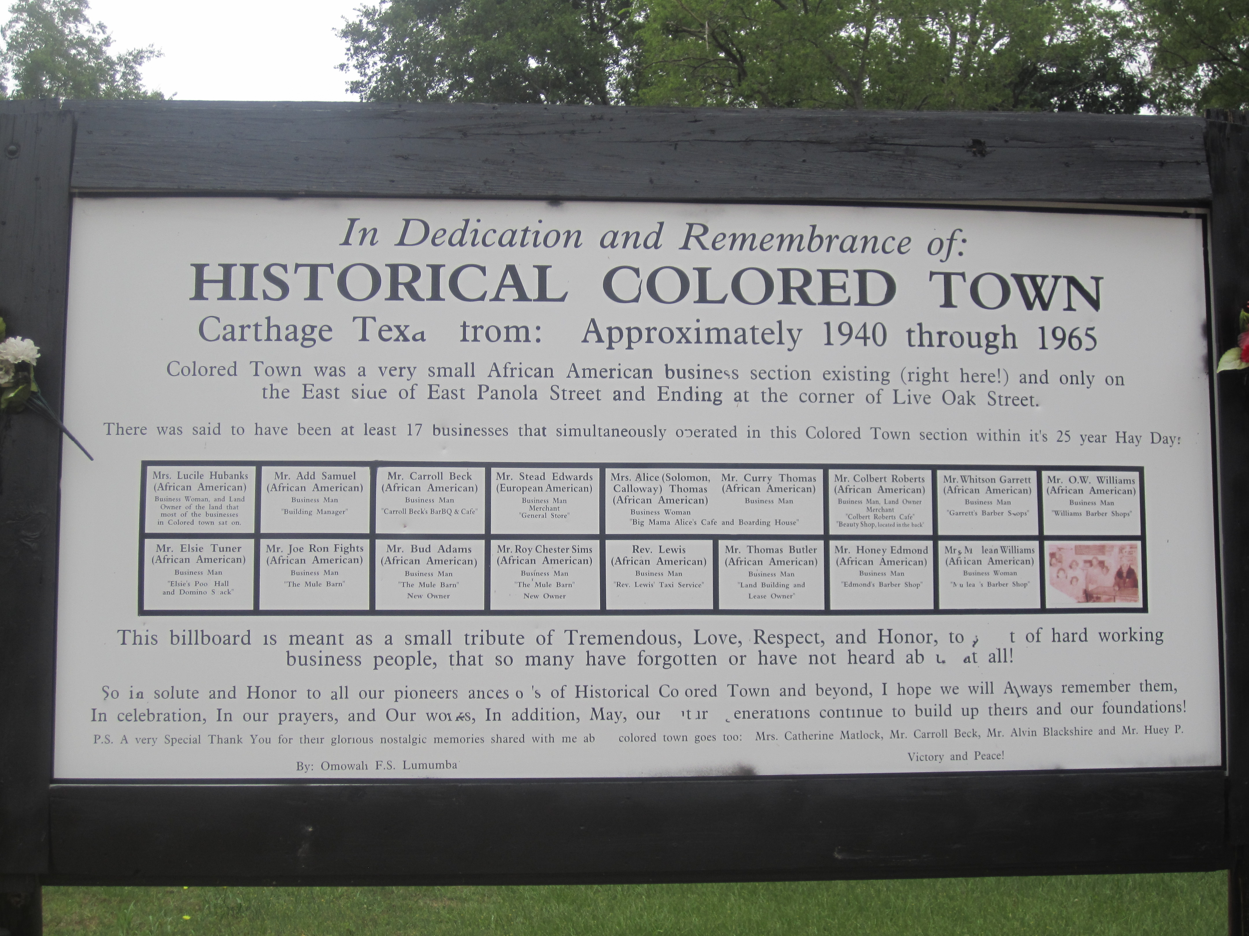 I took photo with Canon camera in Carthage, TX.